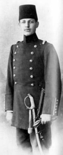 Portrait of Yusuf al-Azma upon his graduation from the Ottoman Military Academy